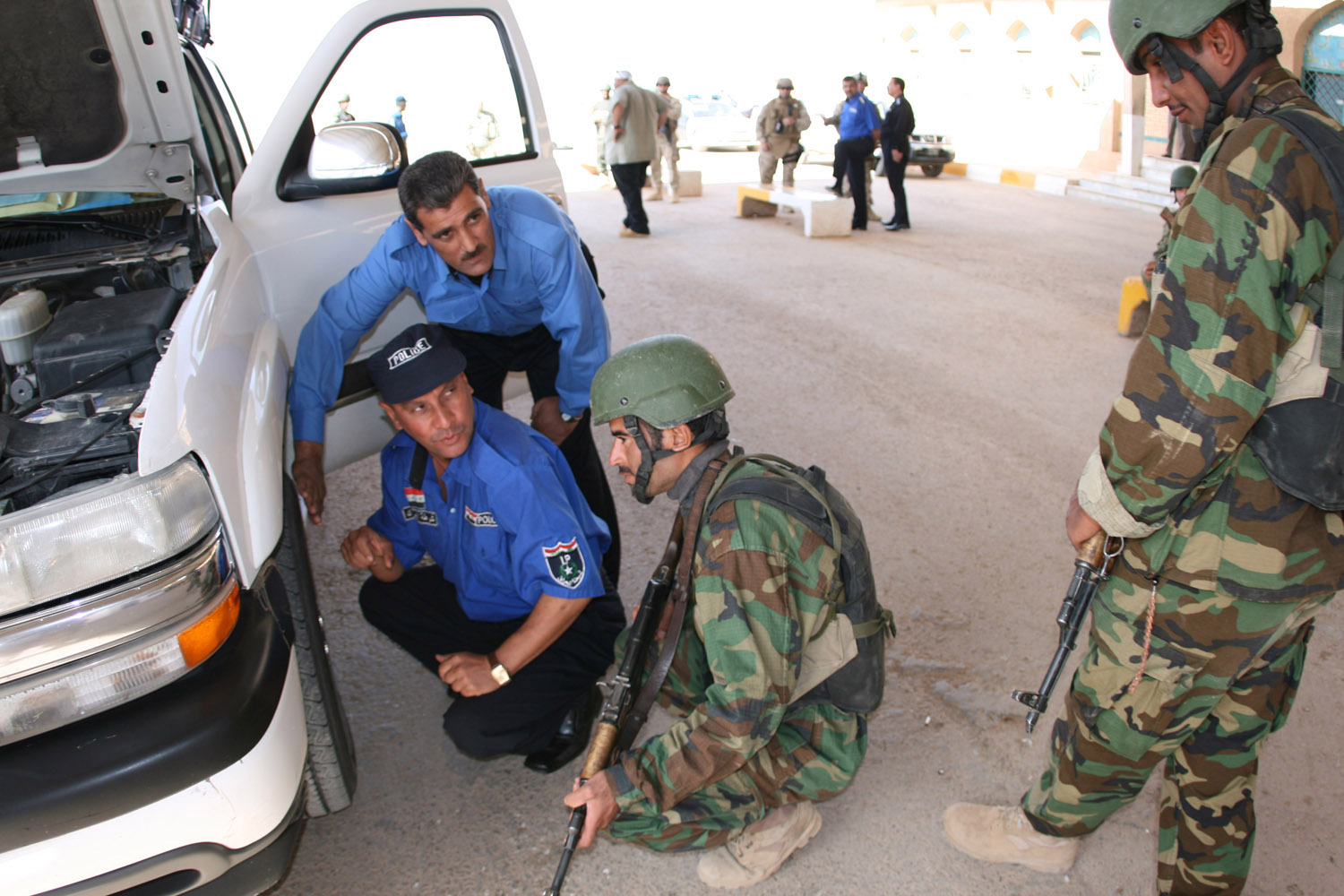 Iraqi border police officers and Iraqi commandos search a civilian vehicle passing through the Iraqi border from Jordan during an evaluation exercise Oct. 7 at the Port of Trebil, the only major thoroughfare between the two countries. The exercise concluded a week-long border police training course which Marines and U.S. Customs and Border Patrol officials conducted for 26 members of the Iraqi Security Forces.